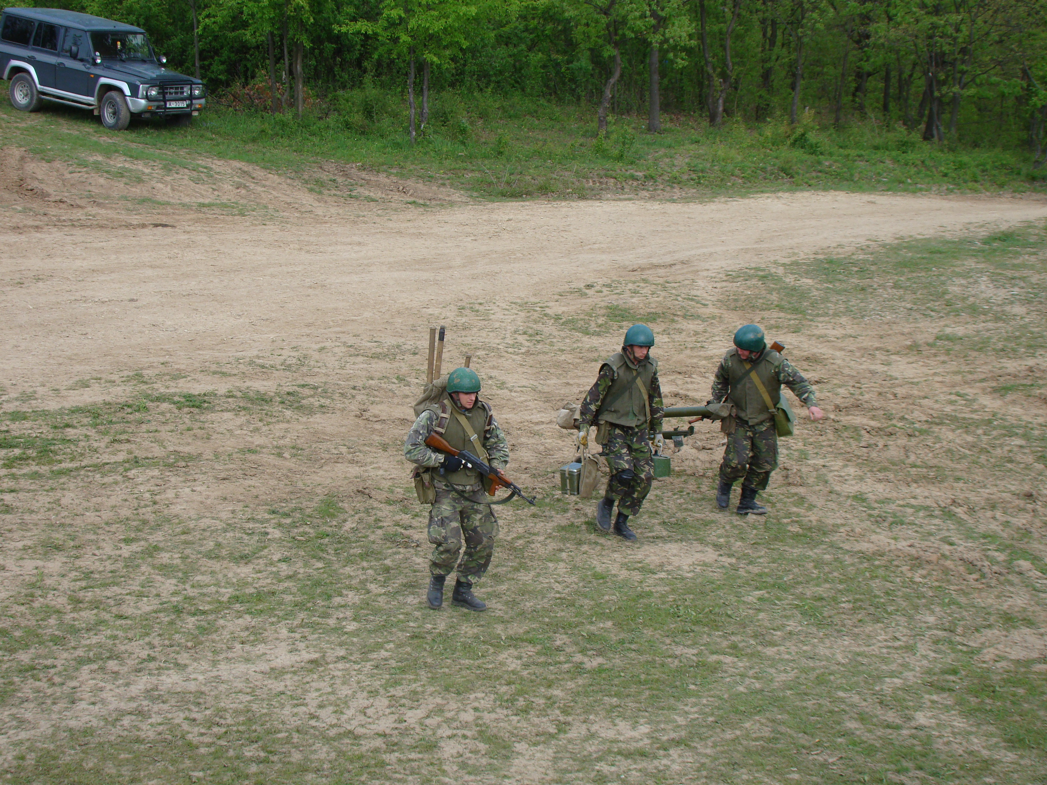 The Romanian crew of a AG-9 recoilless rifle (licensed built SPG-9) during a military exercise of the 191st Infantry Battalion.